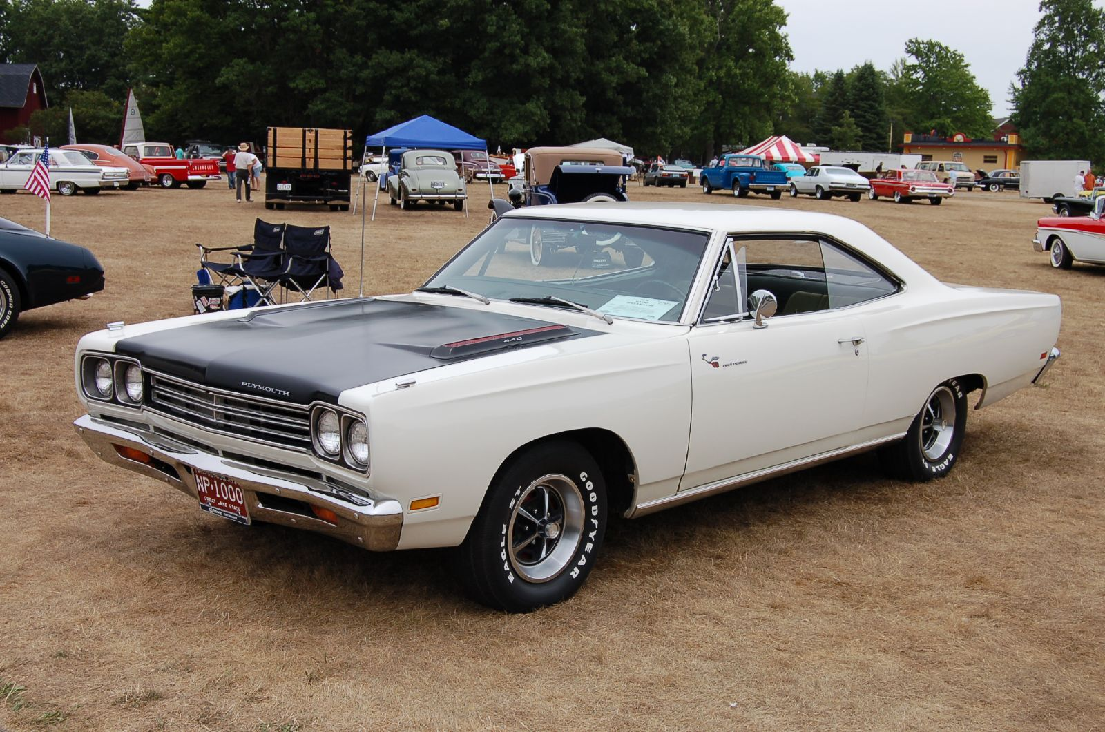 Taken during the 2007 "Red Barns Spectacular" car show at the Gilmore Car Museum, Hickory Corners, Michigan.